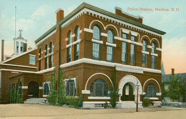 Police Station, Nashua, NH; from a c. 1908 postcard.